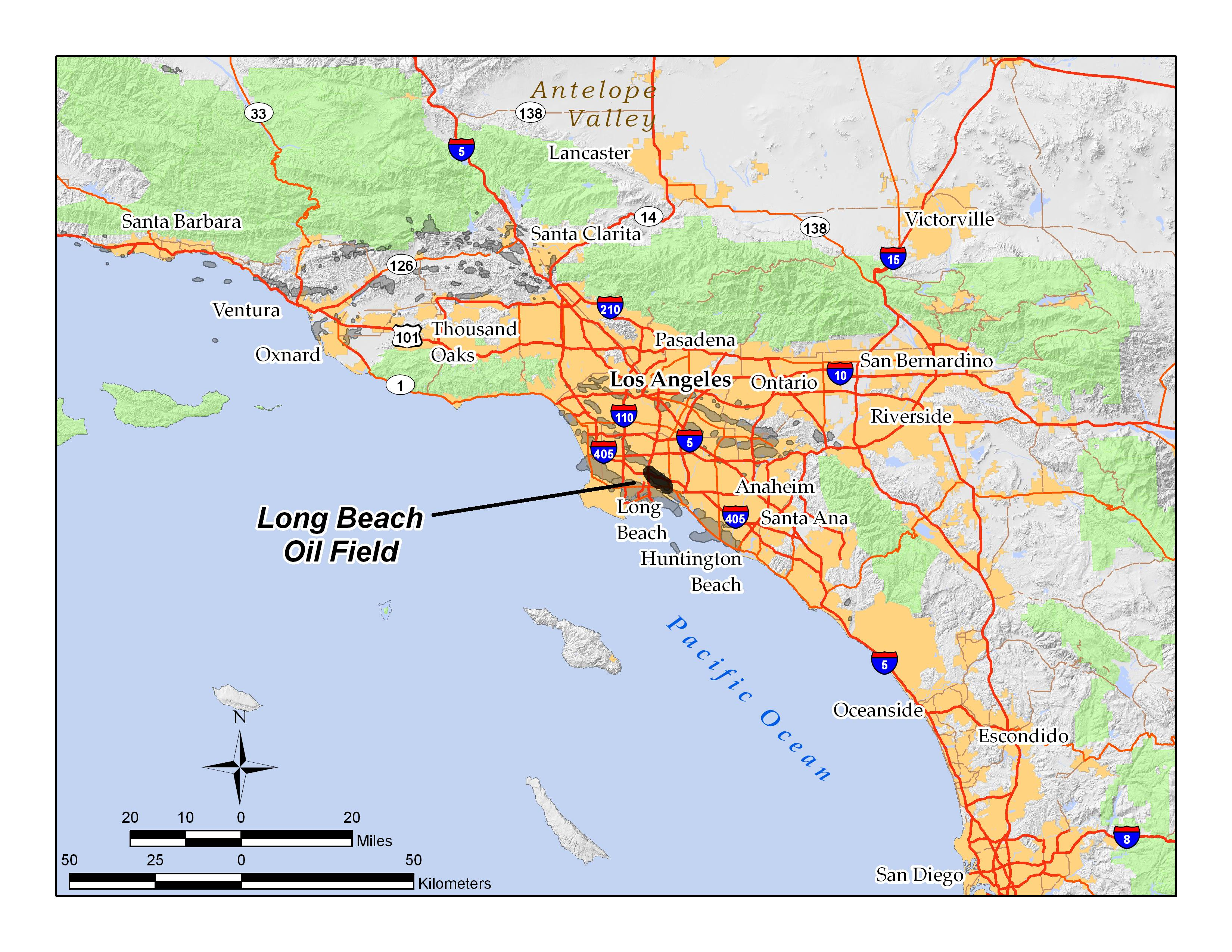 Location of Long Beach oil field; by self using ArcGIS, using only public domain data